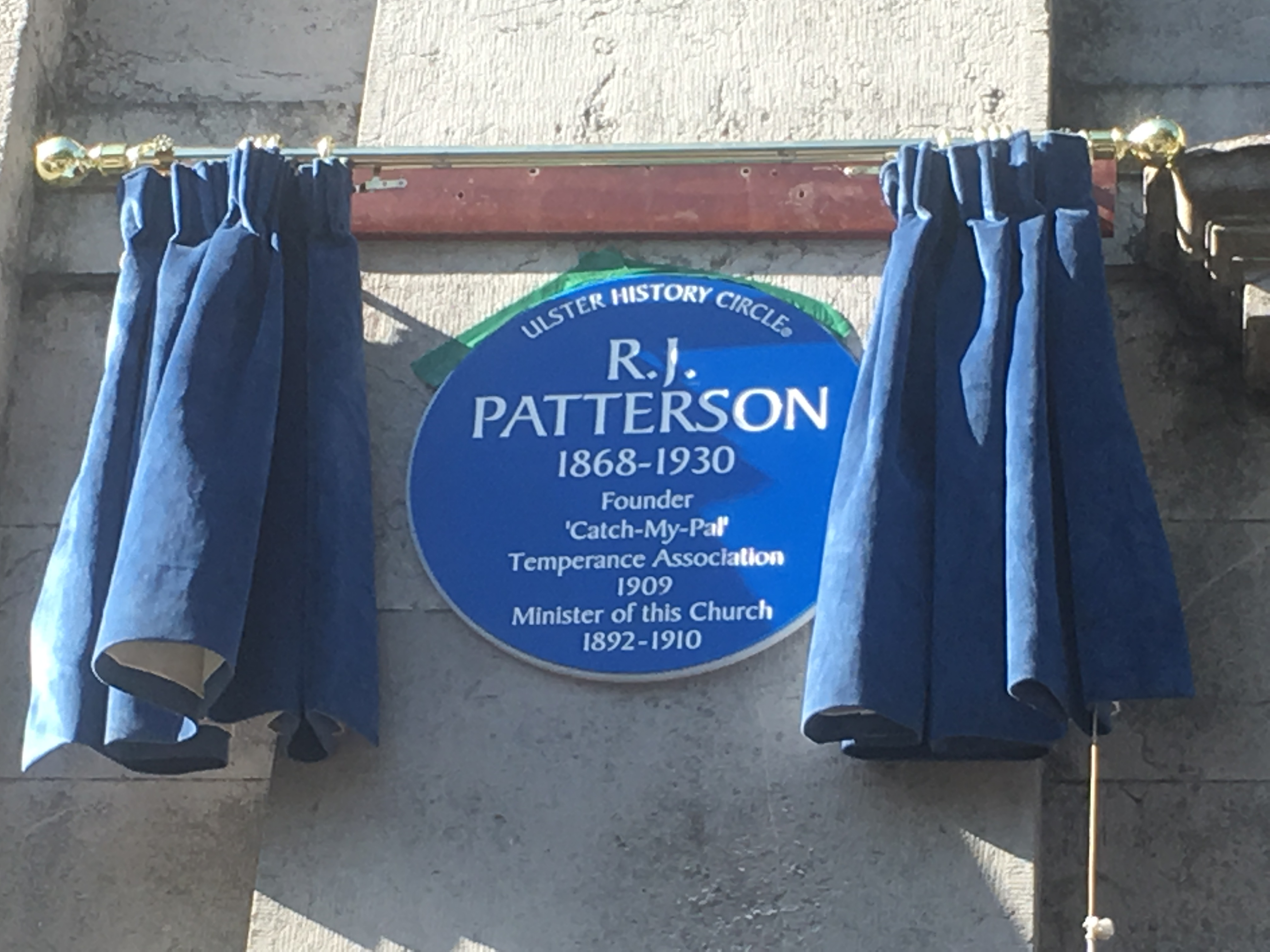 Blue Plaque commemorating Rev. R.J. Patterson on the Mall Meeting House, Armagh